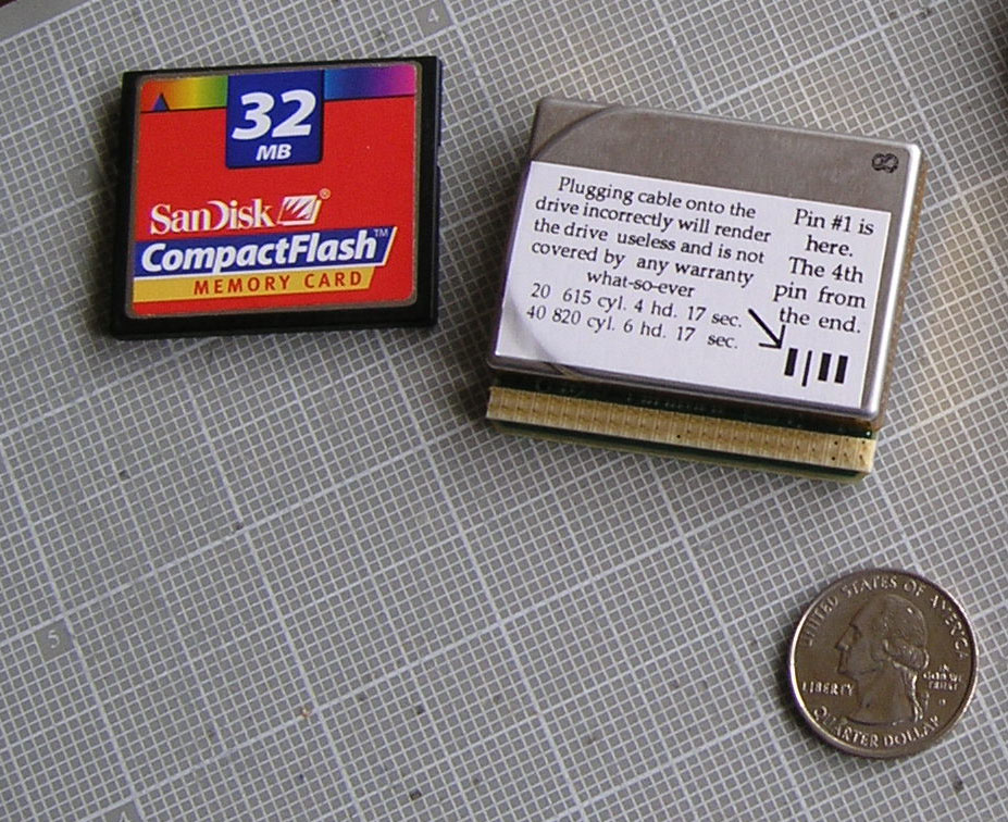 Size comparison of a 1994 Hewlett-Packard Kittyhawk Microdrive with a quarter and a compact flash.